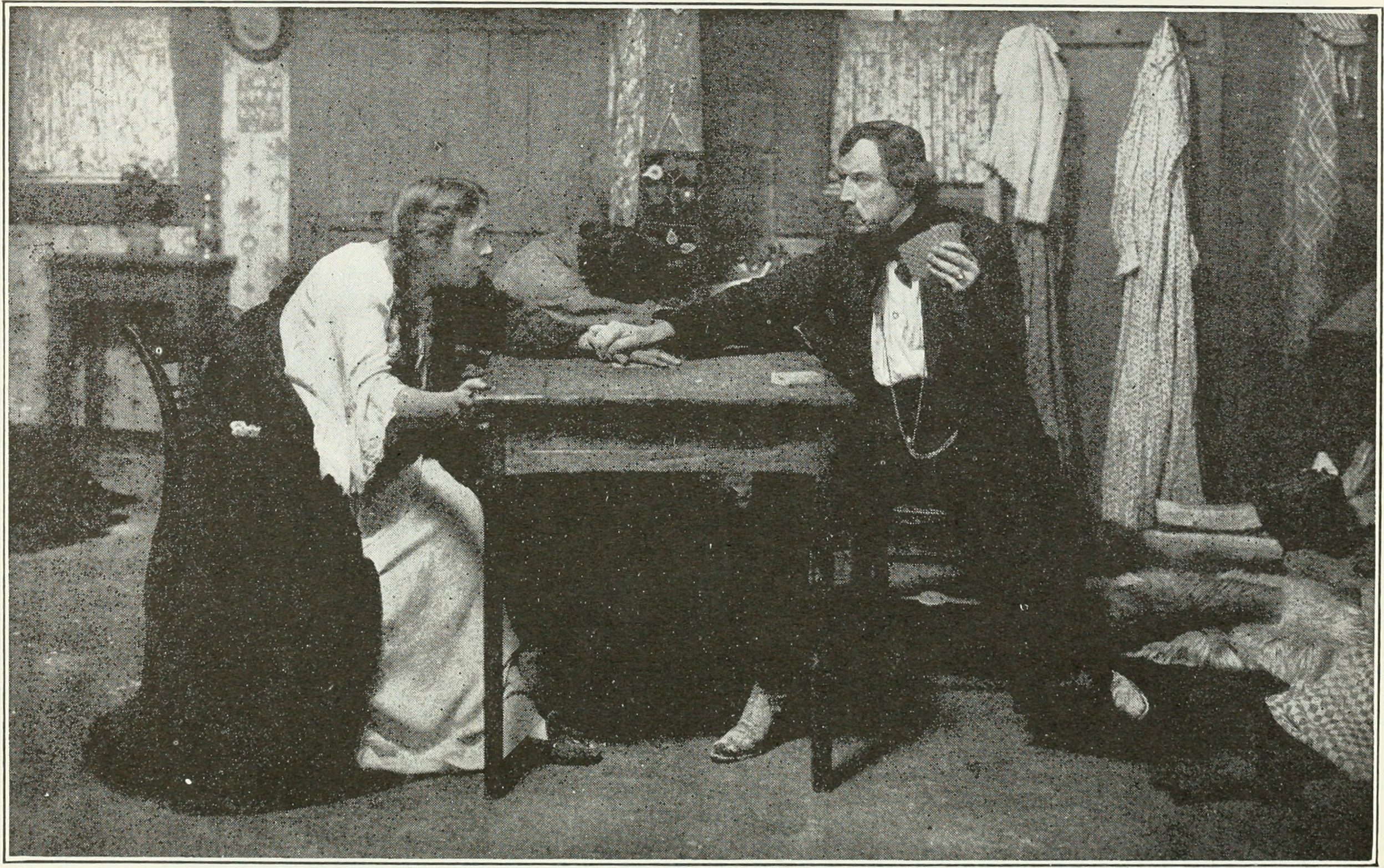 Blanche Bates as The Girl, Frank Keenan as Jack Rance, in David Belasco's production of "The Girl of The Golden West" in 1905 Title: The theatre through its stage door Year: 1919 (1910s) Authors: Belasco, David, 1853-1931 De Foe, Louis Vincent, 1869-1922 Subjects: Theater Publisher: New York London : Harper & brothers